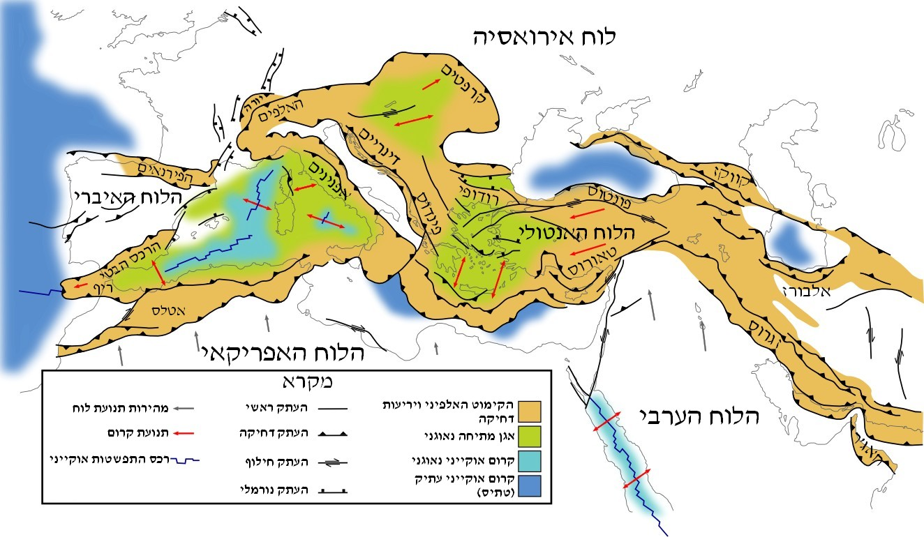 Tectonic map of southern Europe and the Middle East, showing tectonic structures of the western Alpide mountain belt. Only Alpine (tertiary) structures are shown.